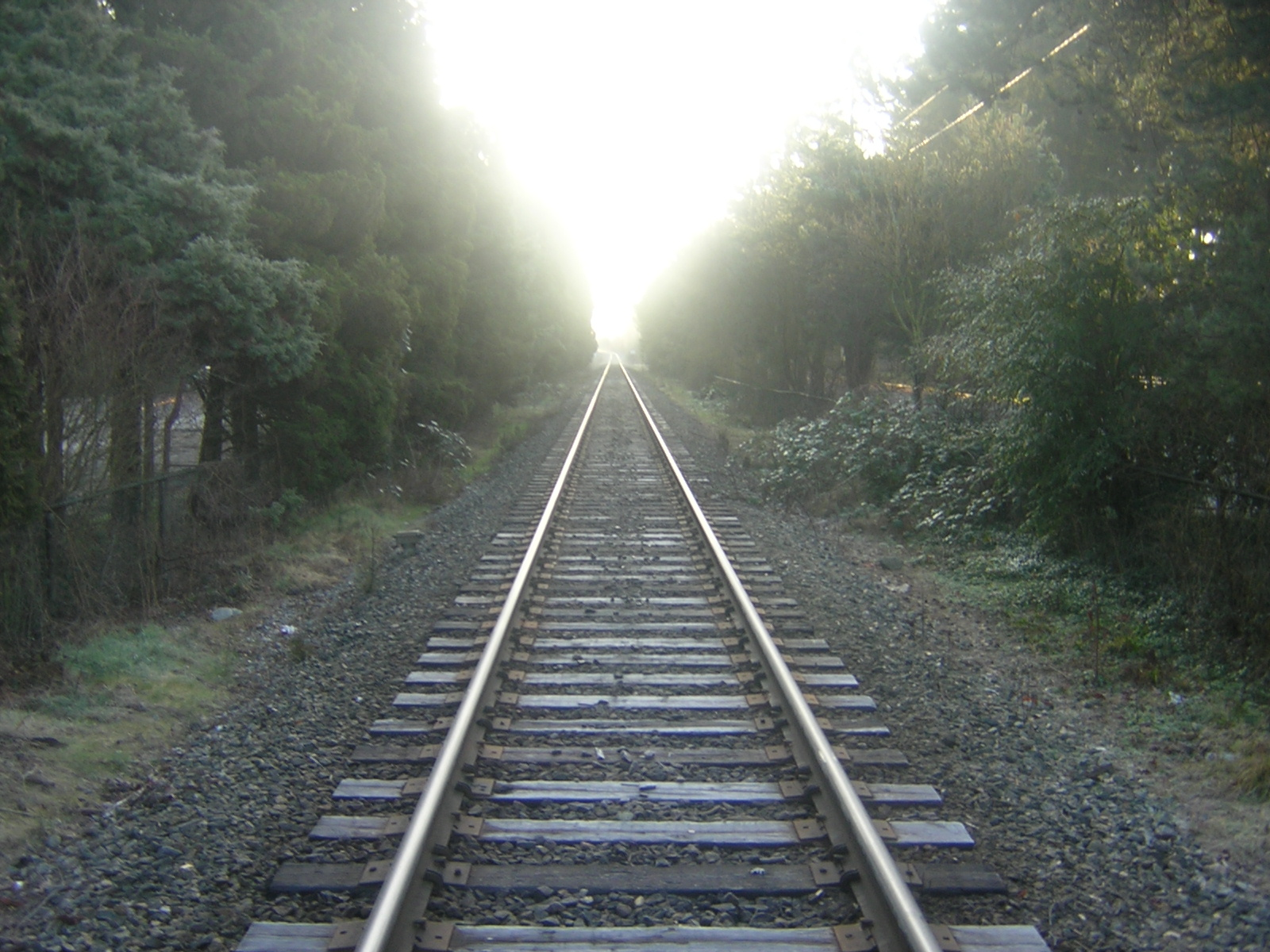 A railway in Vancouver, Canada.DSCN0583